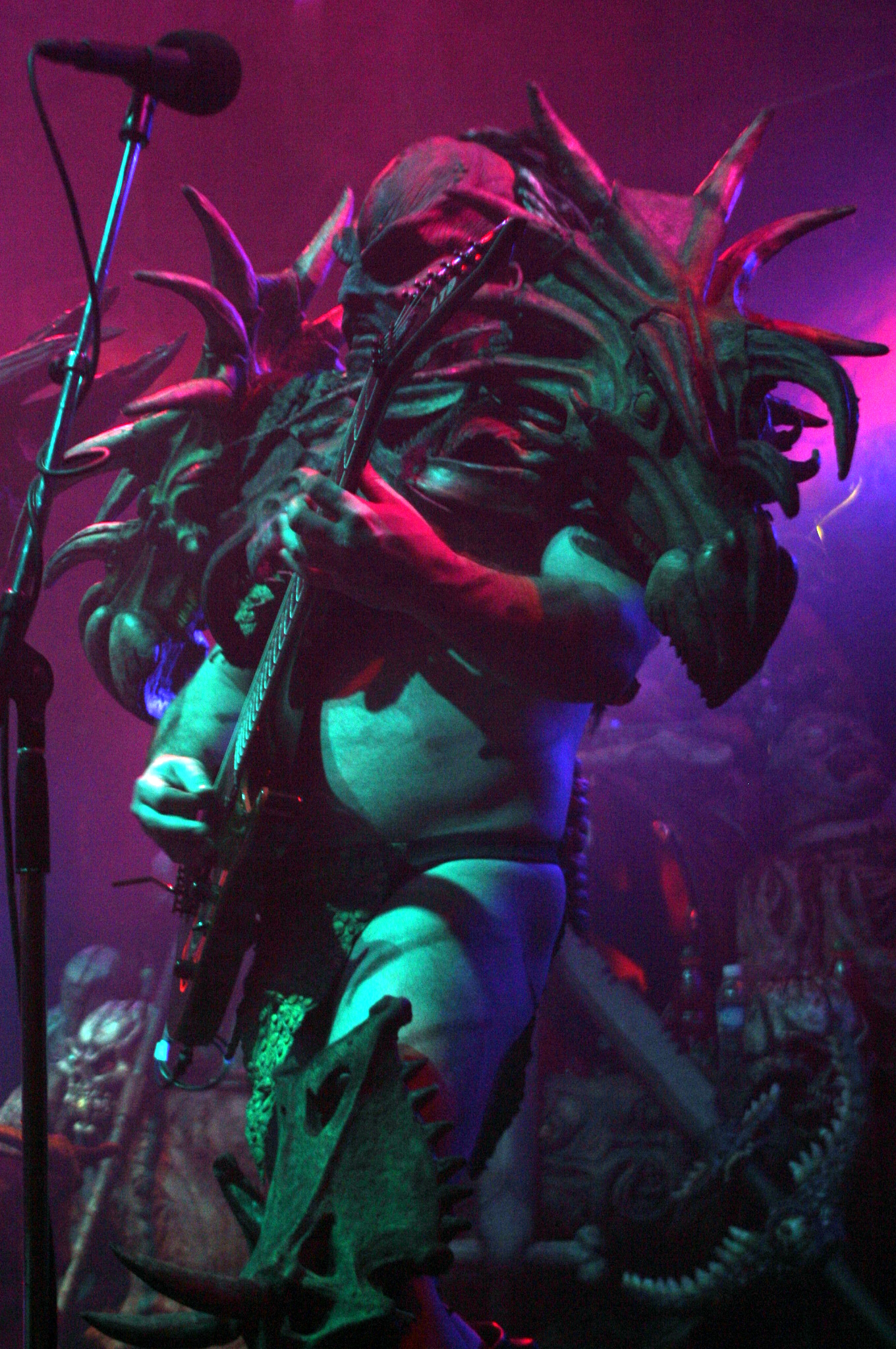 Flattus Maximus of GWAR Live in Concert